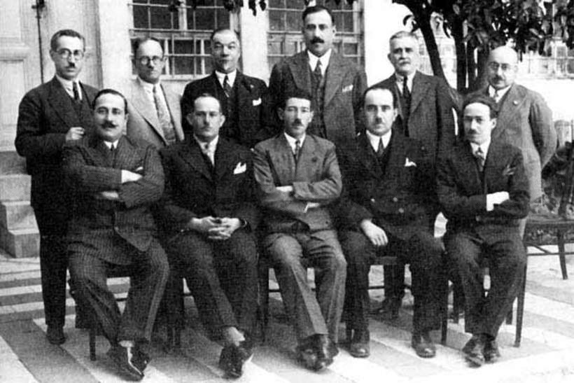 A gathering of notables during the parliamentary elections of 1932Front row (from left to right): Nasib al-Kaylani, Ihsan al-Sharif, Fakhri al-Barudi, Fayez al-Khury, Abu al-Huda al-Hasibi. Back row (from left to right): Jamil Mardam Bey, Zaki al-Khatib, Mohammad Ali al-Abed, Nasib al-Bakri, Yusuf Lindau, and Lutfi al-Haffar.